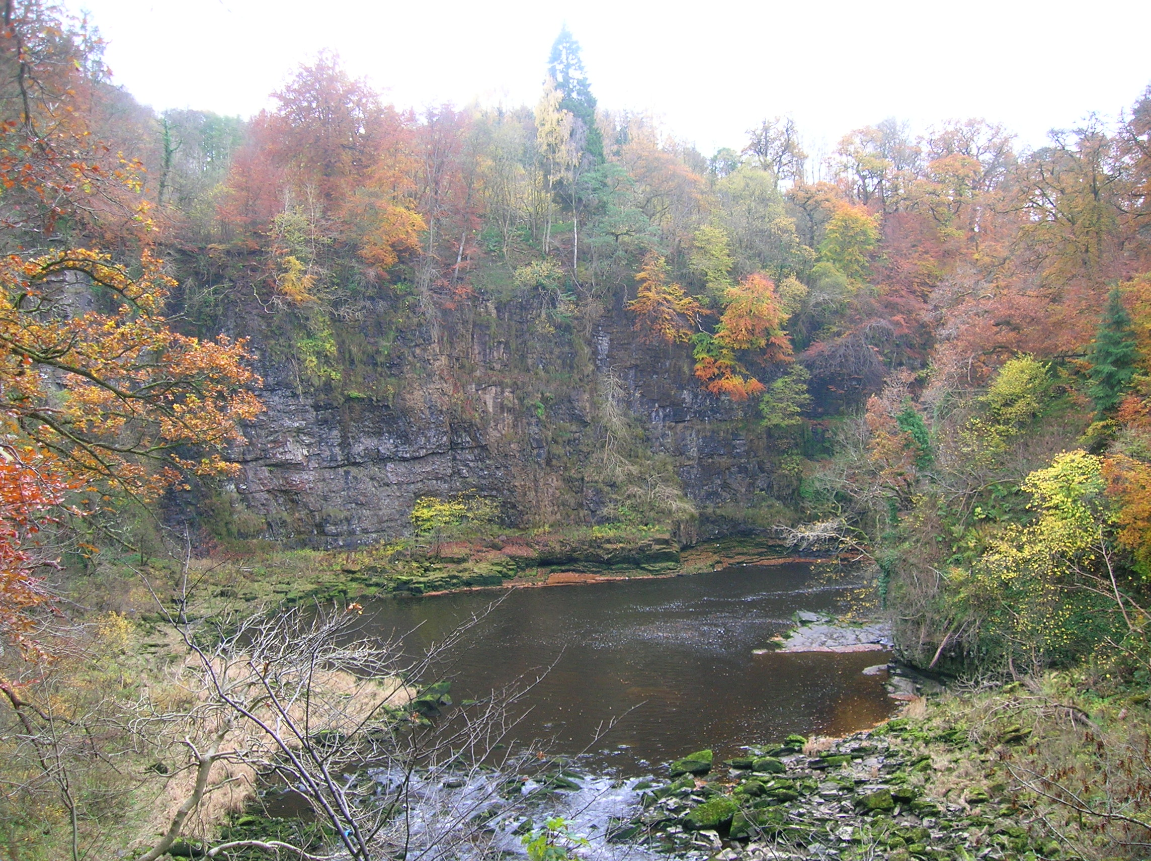 The natural amphitheatre below Corra linn on the Clyde at New Lanark, Scotland.